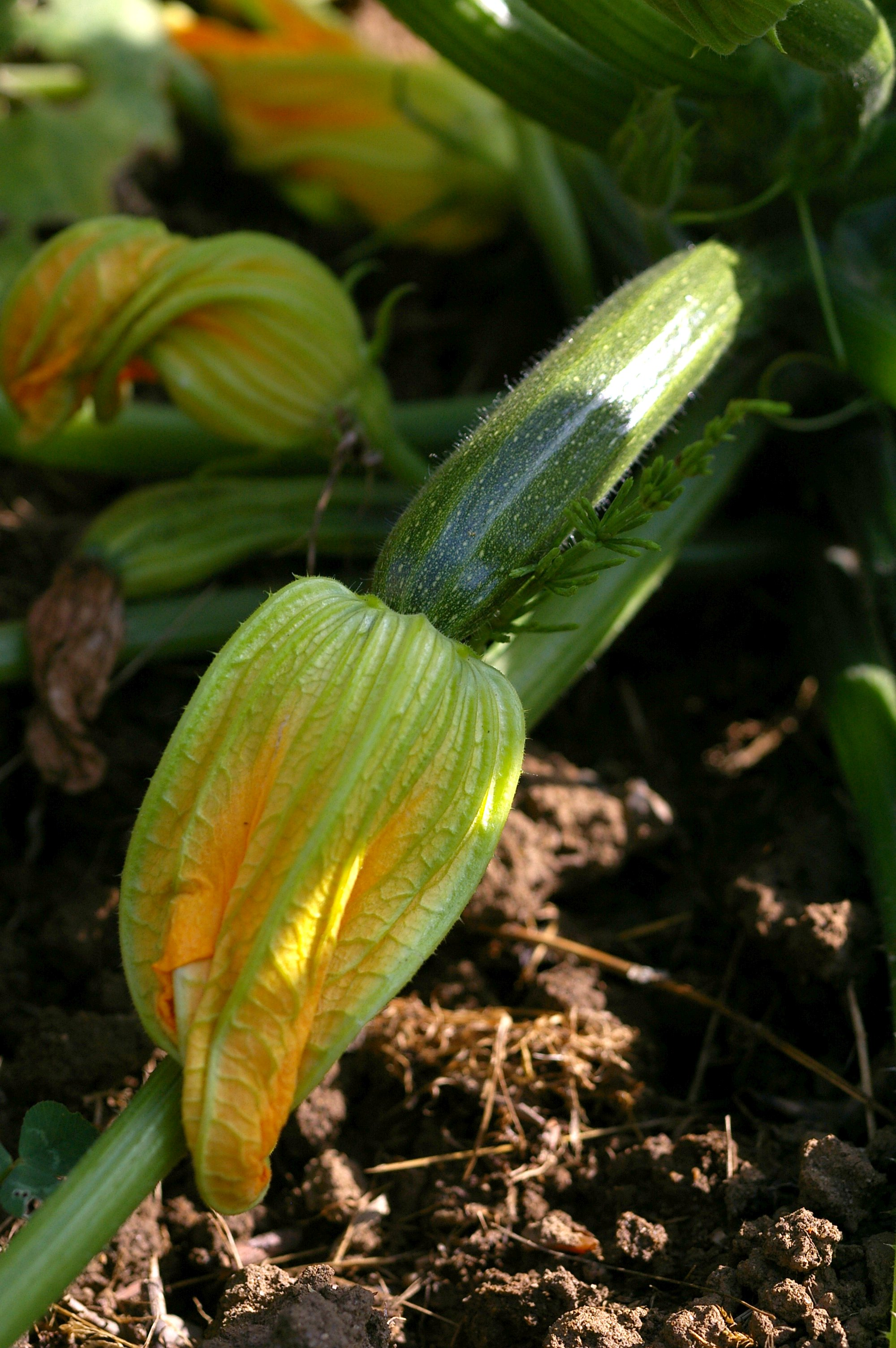 Maturating courgette/zuchinni.